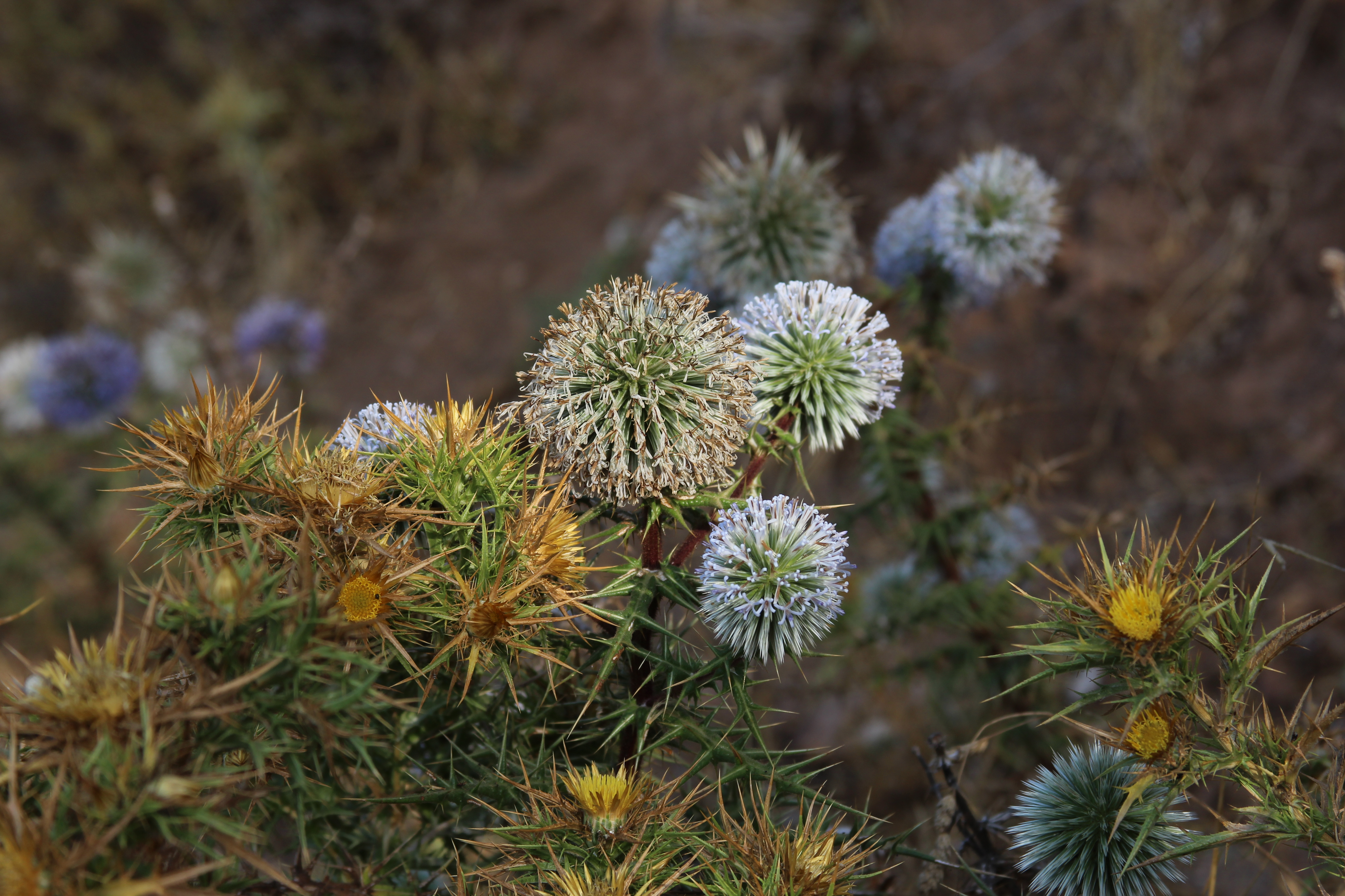 Echinops spinosissimus and Carlina graeca at Samos